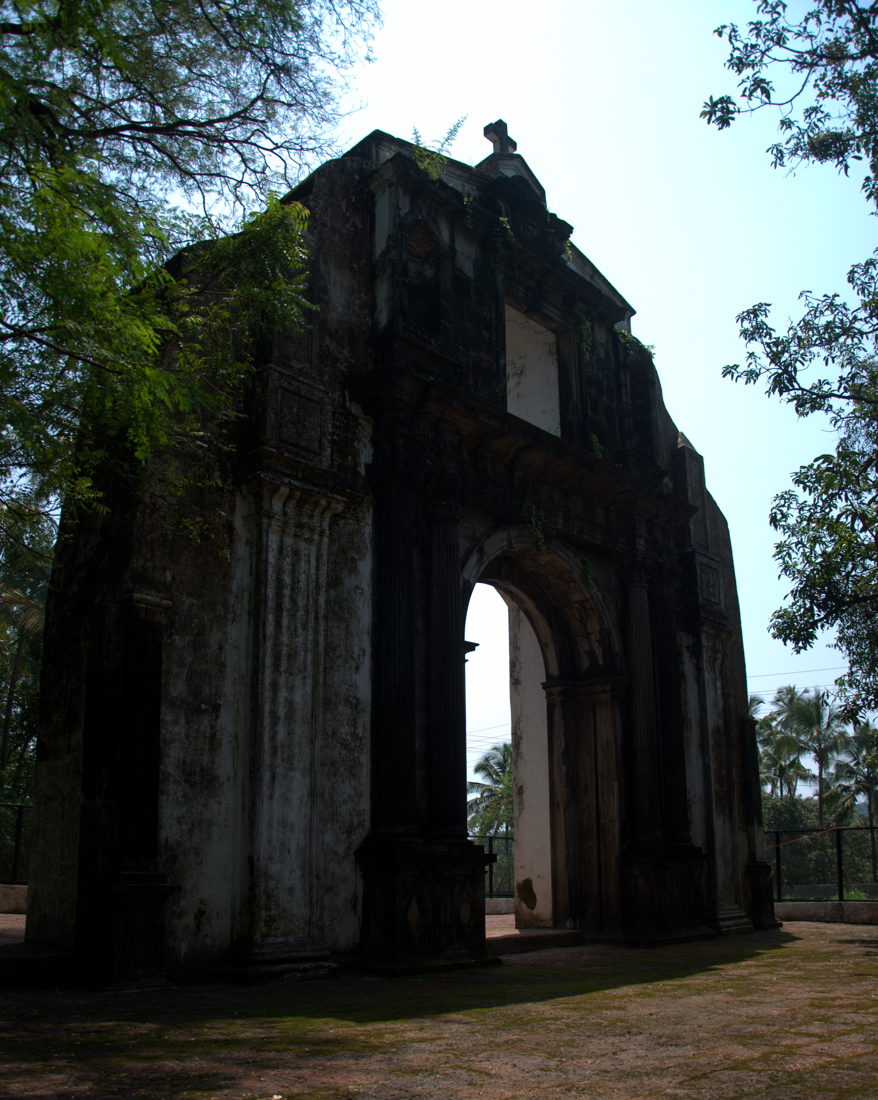 Portal remains of St.Paul’s College